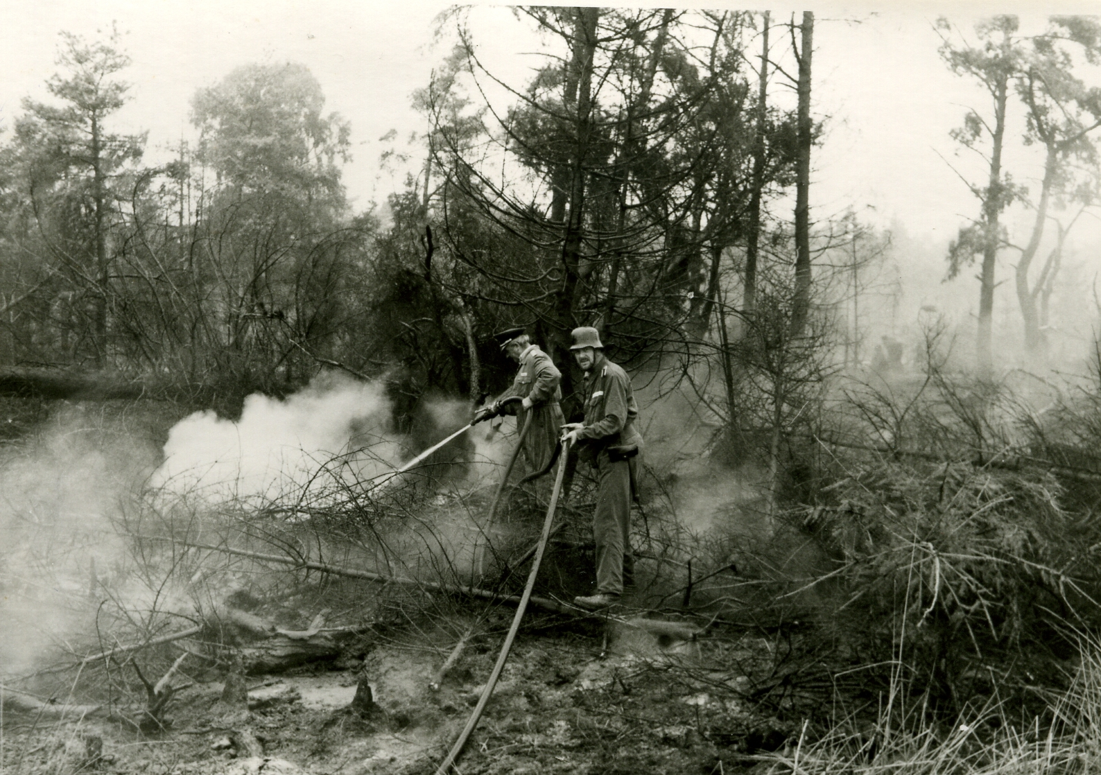 Firemen fighting the fire on the Lüneburg Heath near Eschede, Lower Saxony, Germany